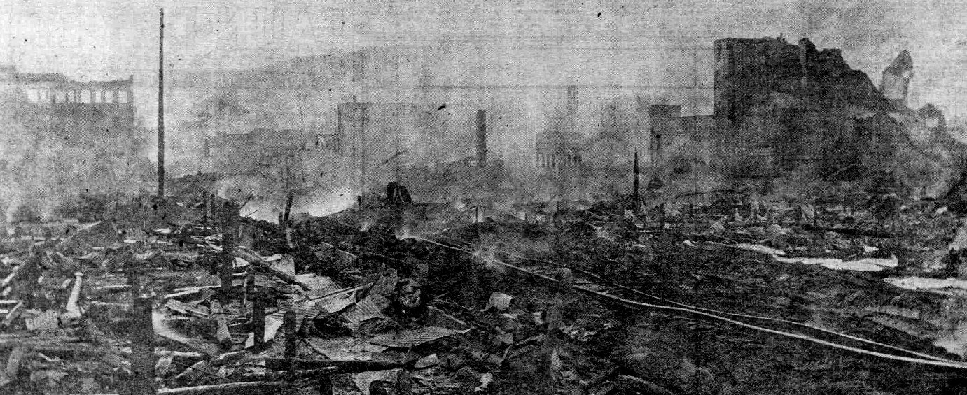 An image of the aftermath of a fire that destroyed a 24 blocks of Astoria, Oregon on December 8, 1922.